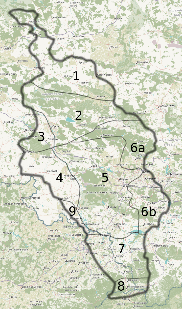 Slavic/Polish Silesian dialects of (Upper) Silesia according to Alfred Zaręba (from [1], corrected with more precise borders from [2]) 1 - kluczborski (Kluczbork) 2 - opolski (Opole) 3 - niemodliński (Niemodlin) 4 - prudnicki (Prudnik) 5 - gliwicki centralny (Gliwice) 6a - pogranicza gliwicko-opolskiego (Gliwice/Opole borderland) 6b - pogranicza śląsko-małopolskiego (Silesia/Lesser Poland borderland) 7 - cieszyński (Cieszyn) 8 - jabłonkowski (Jablunkov) 9 - pogranicza śląsko-laskiego (Silesia/Lach dialects borderland)